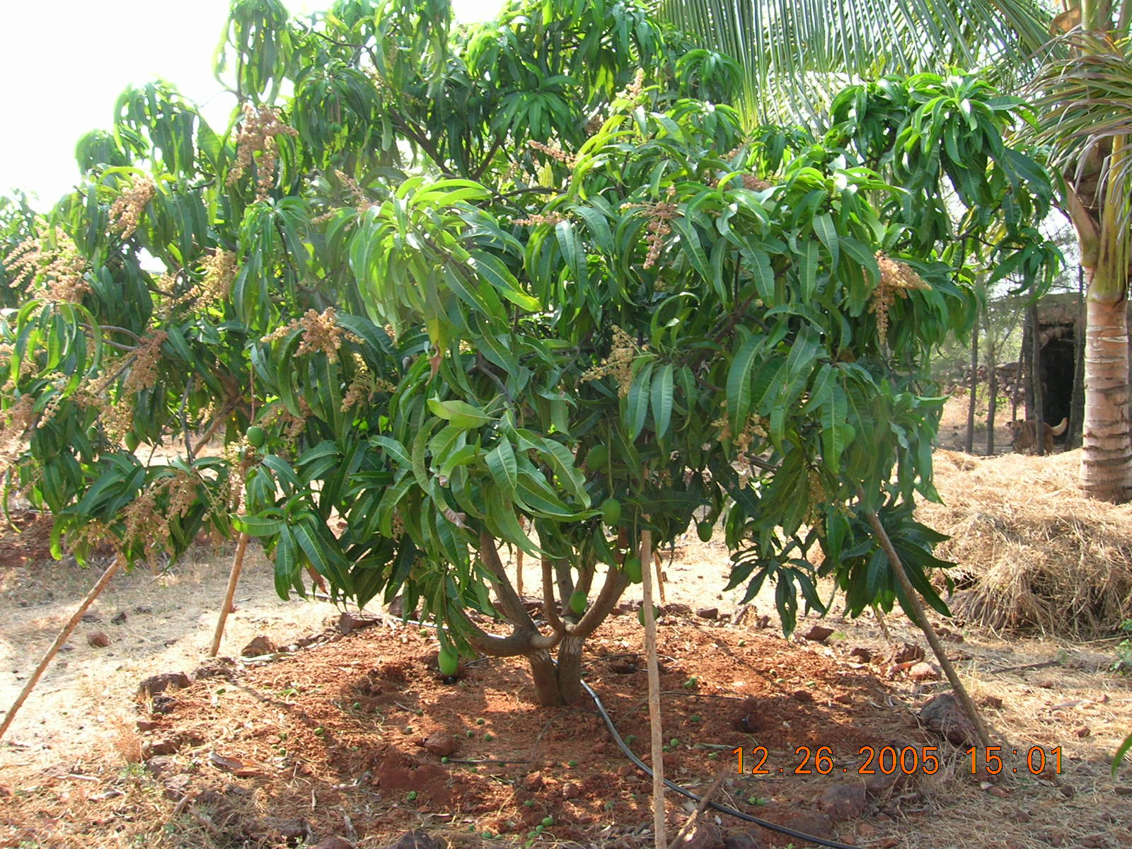 Alphonso mango tree in a dense cultivation orchard at Kotawade, Ratnagiri distirict, Maharashtra state, India. Photo courtesy